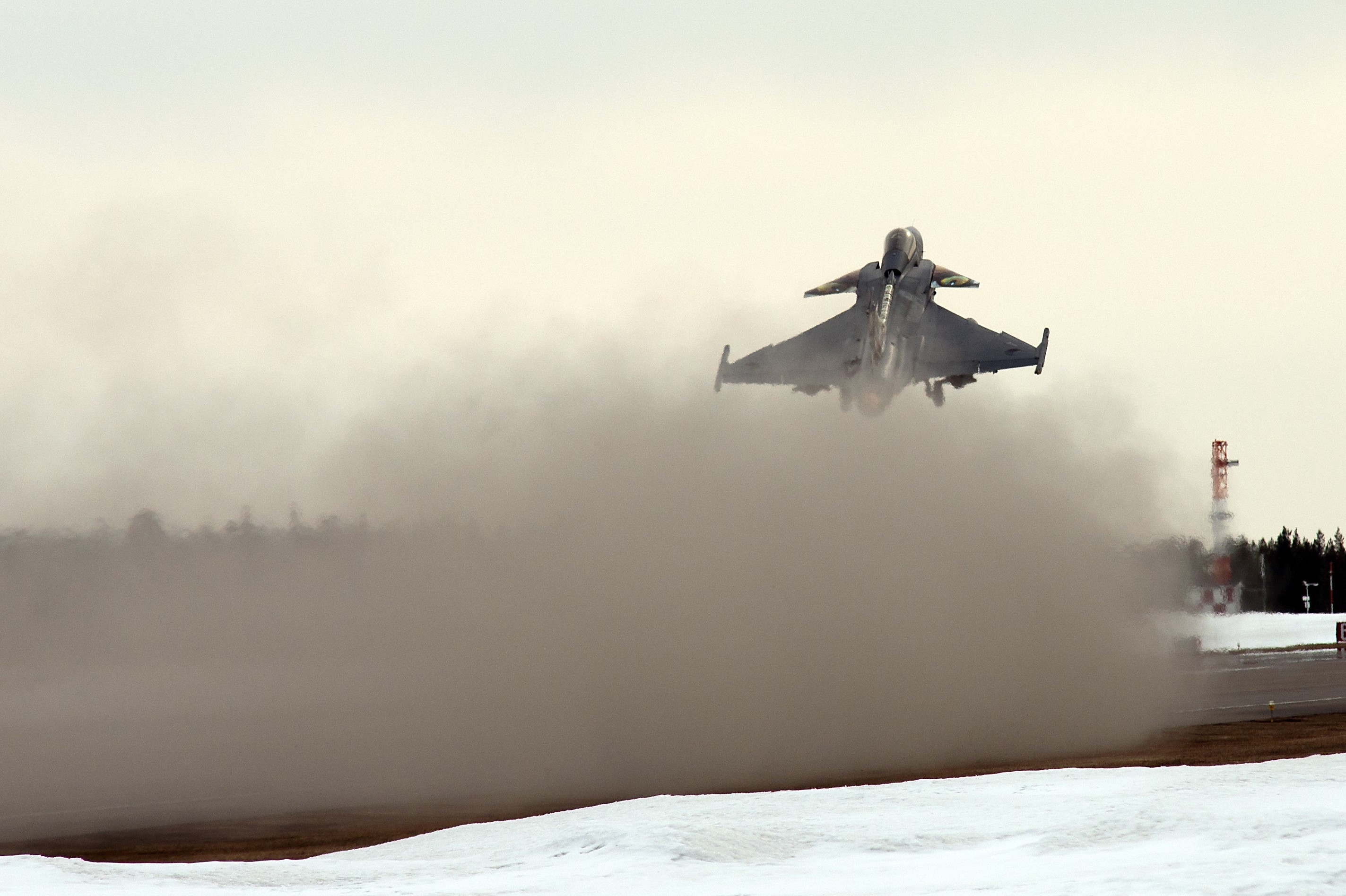 Taking off from Vidsel